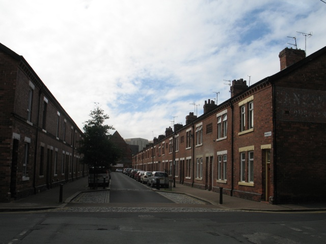 Parade Street, Barrow-in-Furness